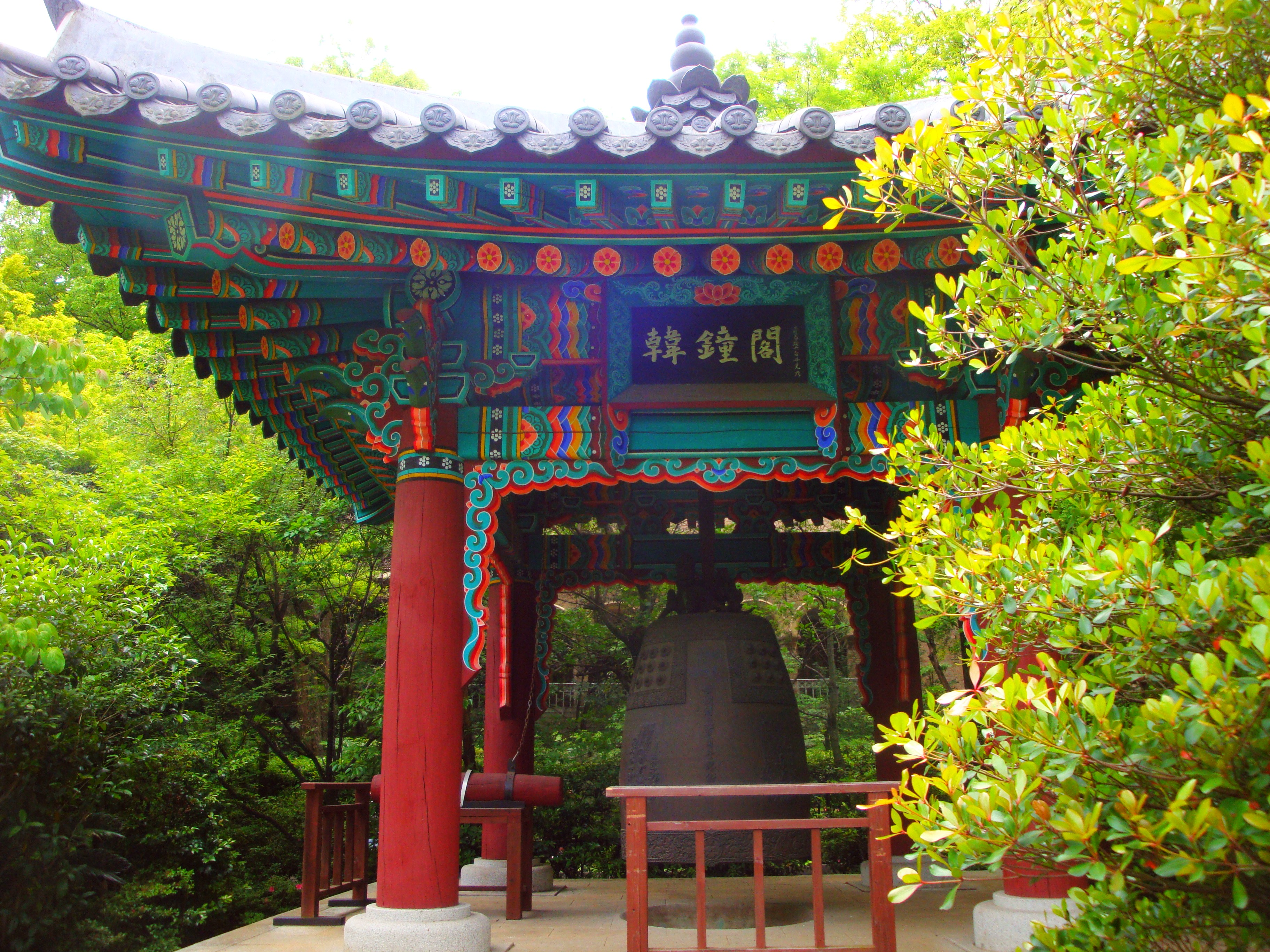 Korean bell in the Okuma Garden